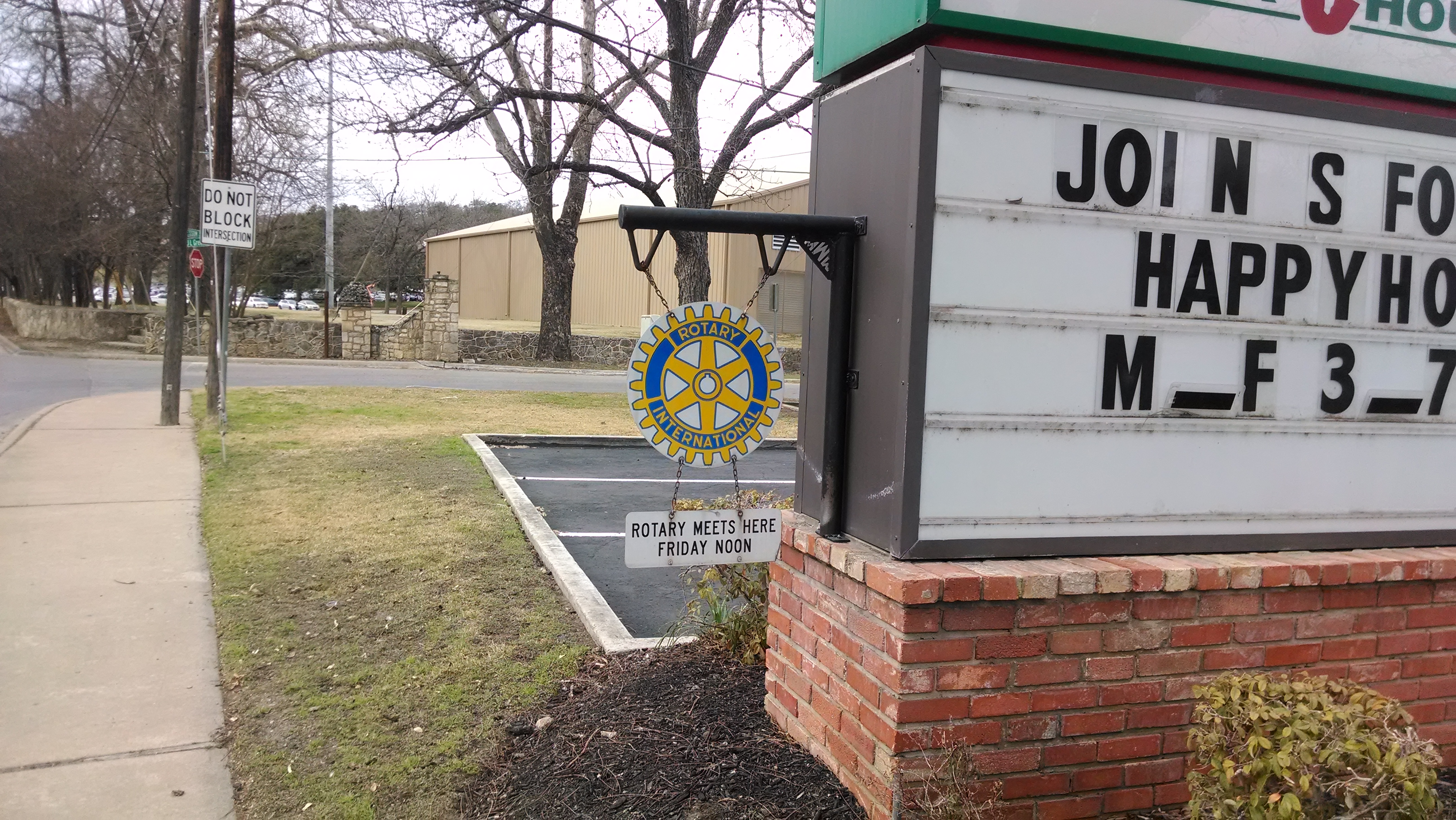 Sign outside a restaurant in San Marcos, Texas where the local Rotary Club meets